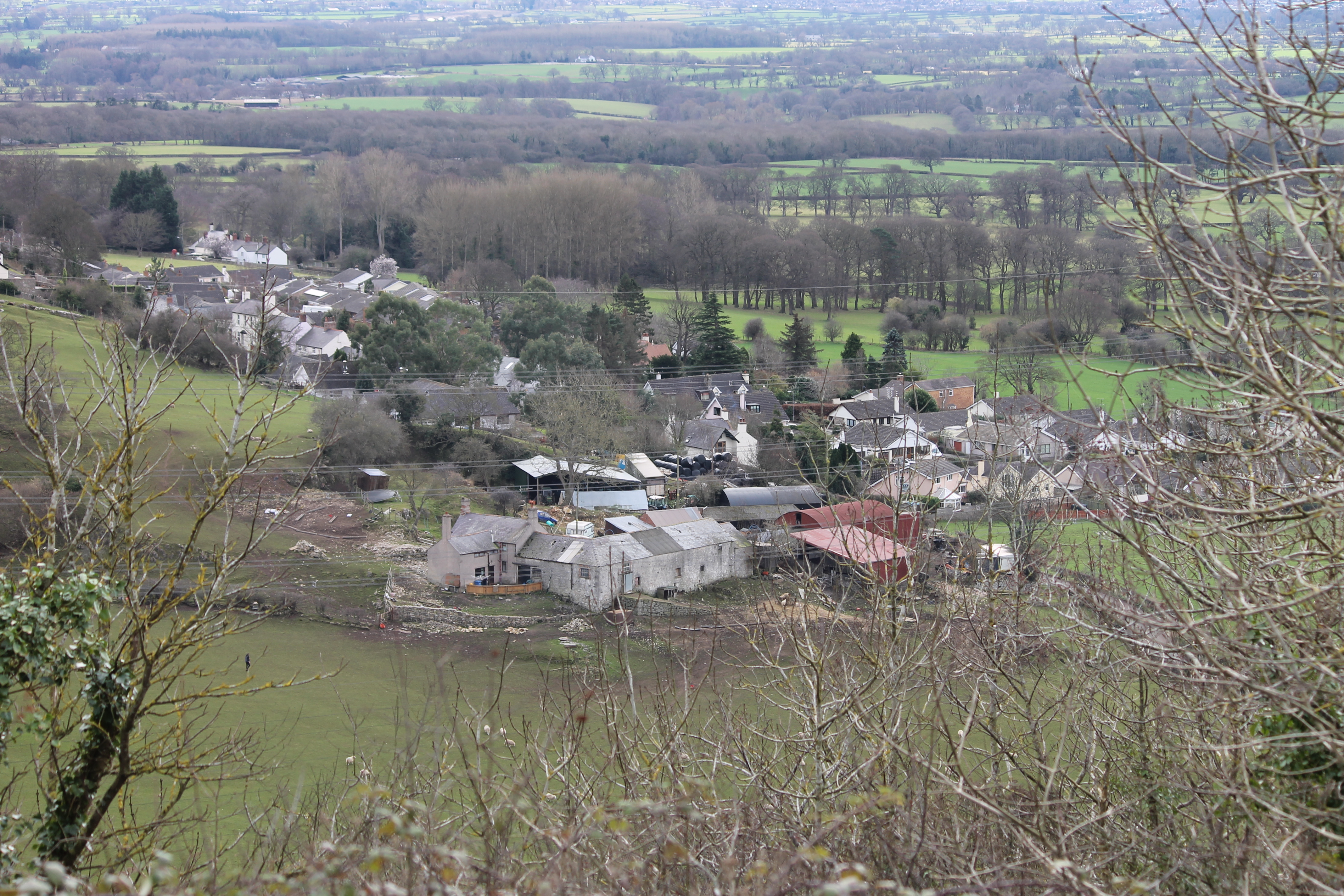 Church of Corpus Christi, St Beuno's colege, Denbighshire, Wales. Grade II*.